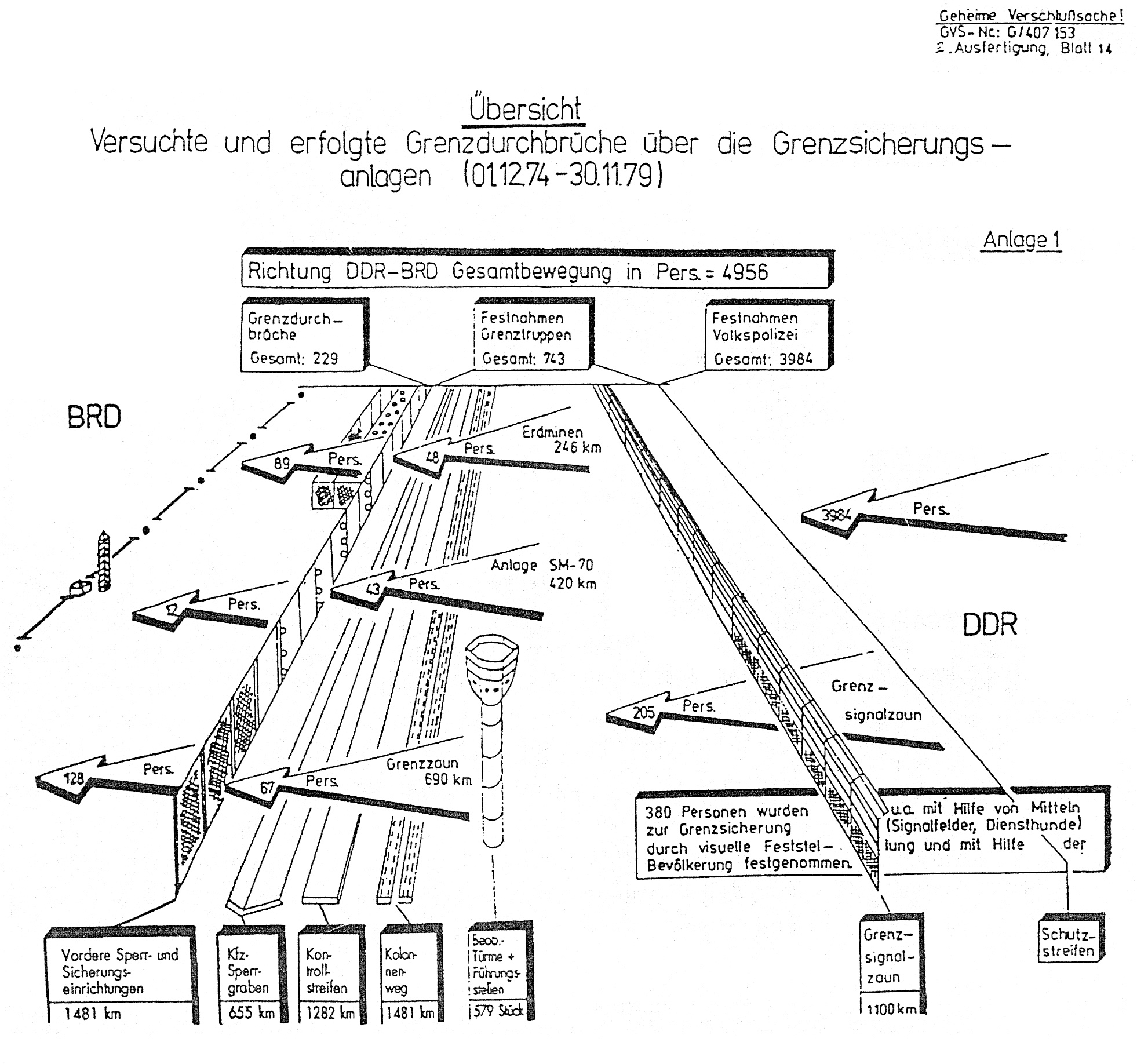 Overview diagram of successful and attempted breaches of the inner German border, 01.12.74 - 30.11.79